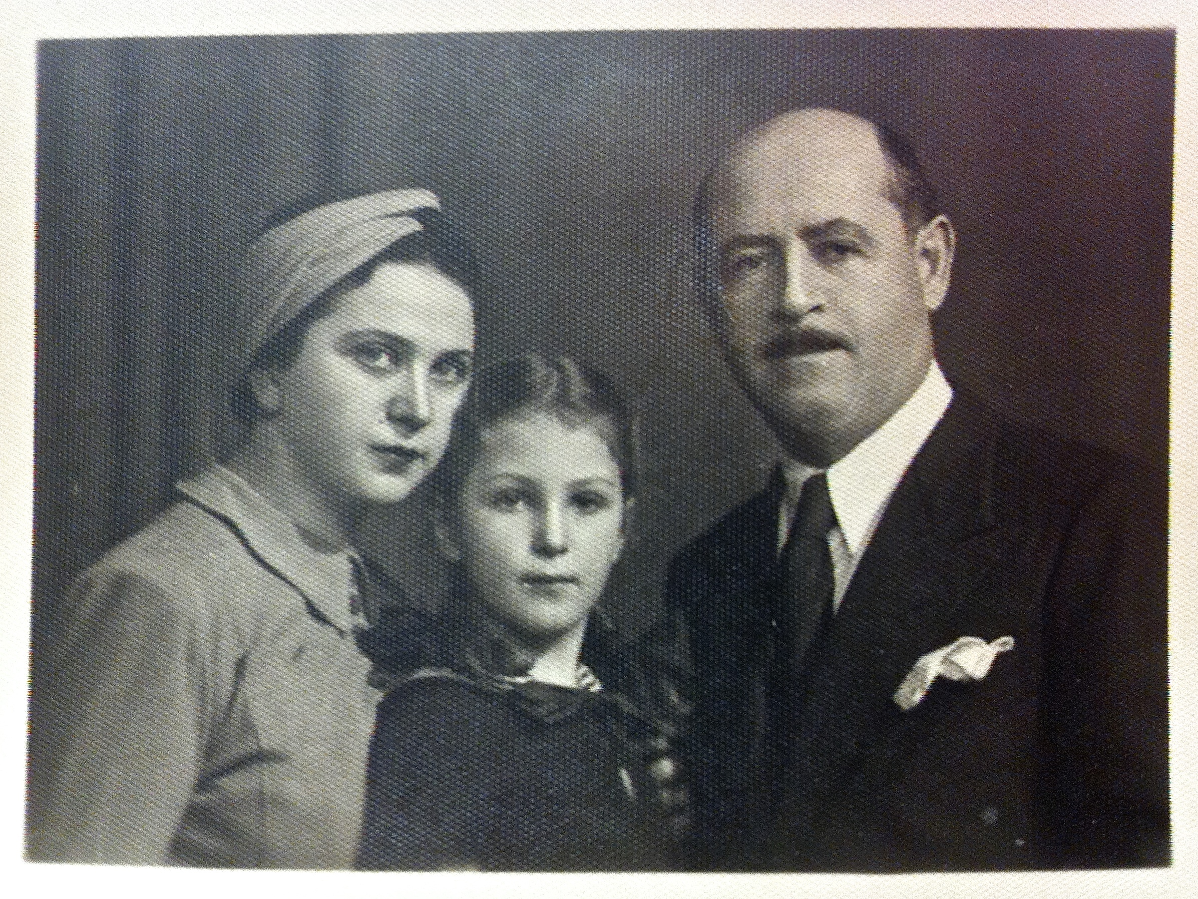 This is a family picture of Nicolae Blatt, his wife and daughter